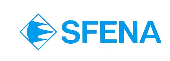 SFENA logo